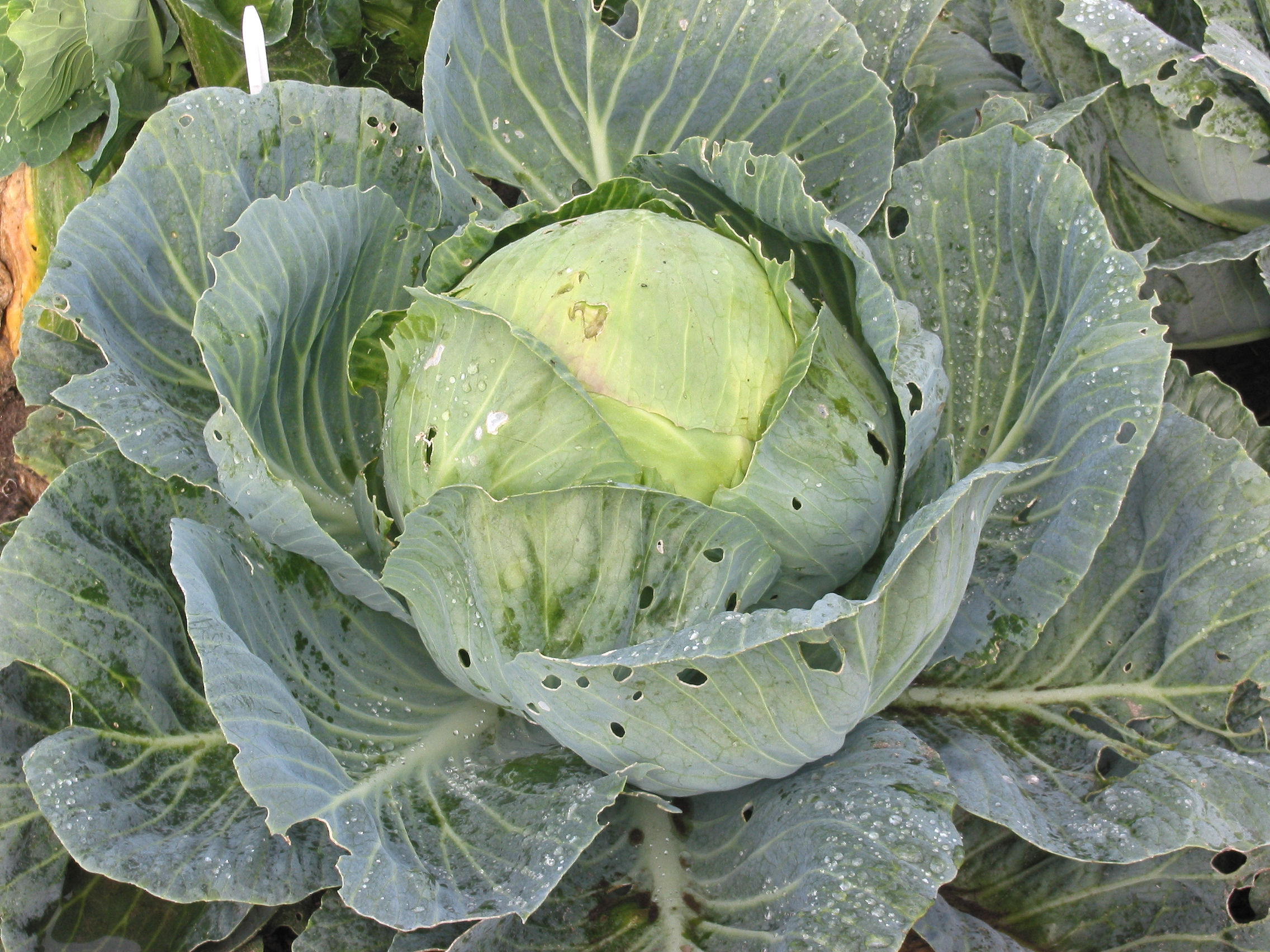 White cabbage (Witte kool)